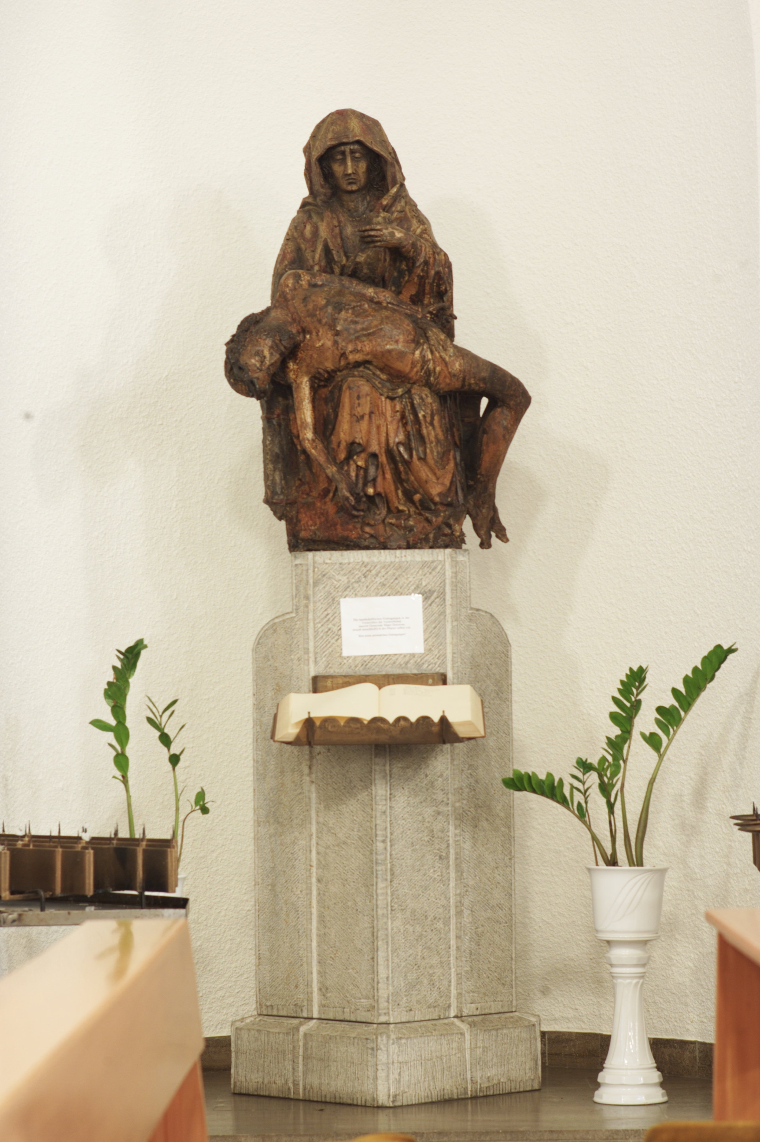 Pieta of Mater Dolorosa Berlin-Lankwitz